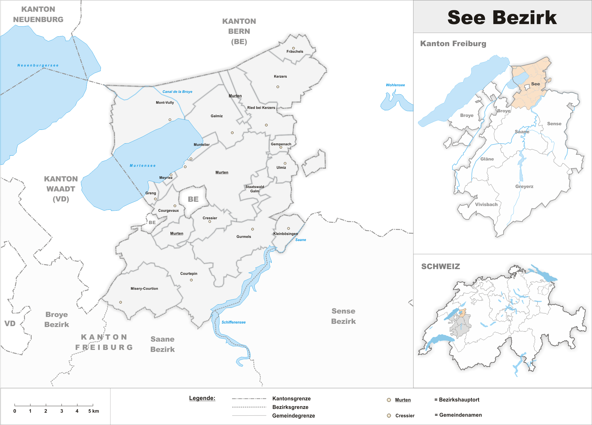 Municipality in the District of See